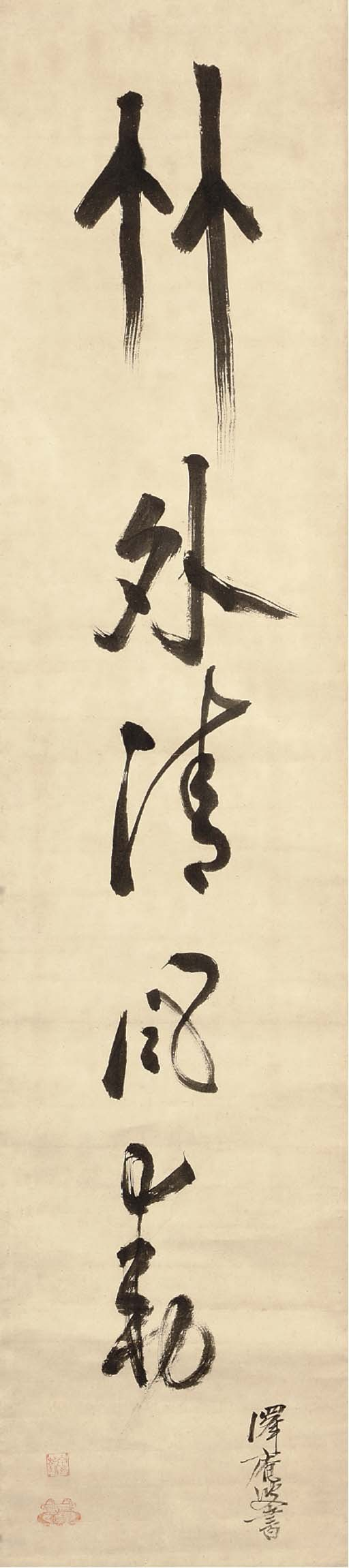 Calligraphy by Takuan Soho